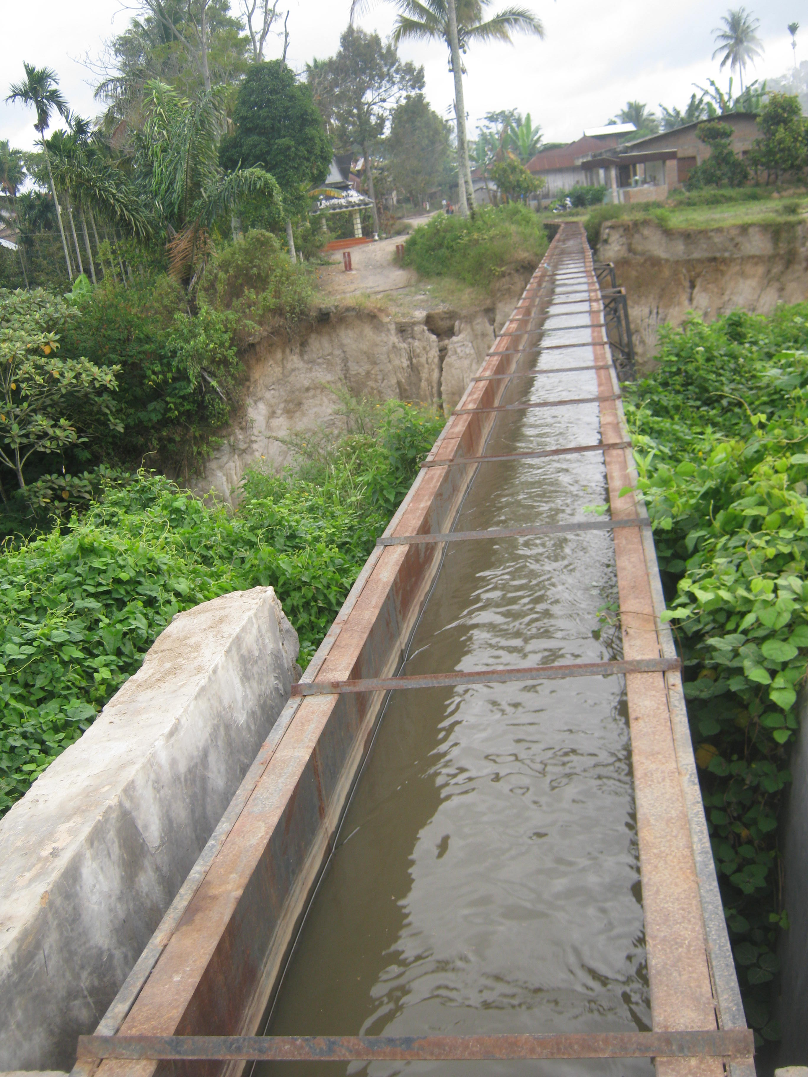 Aliran Air desa Nageri Juhar